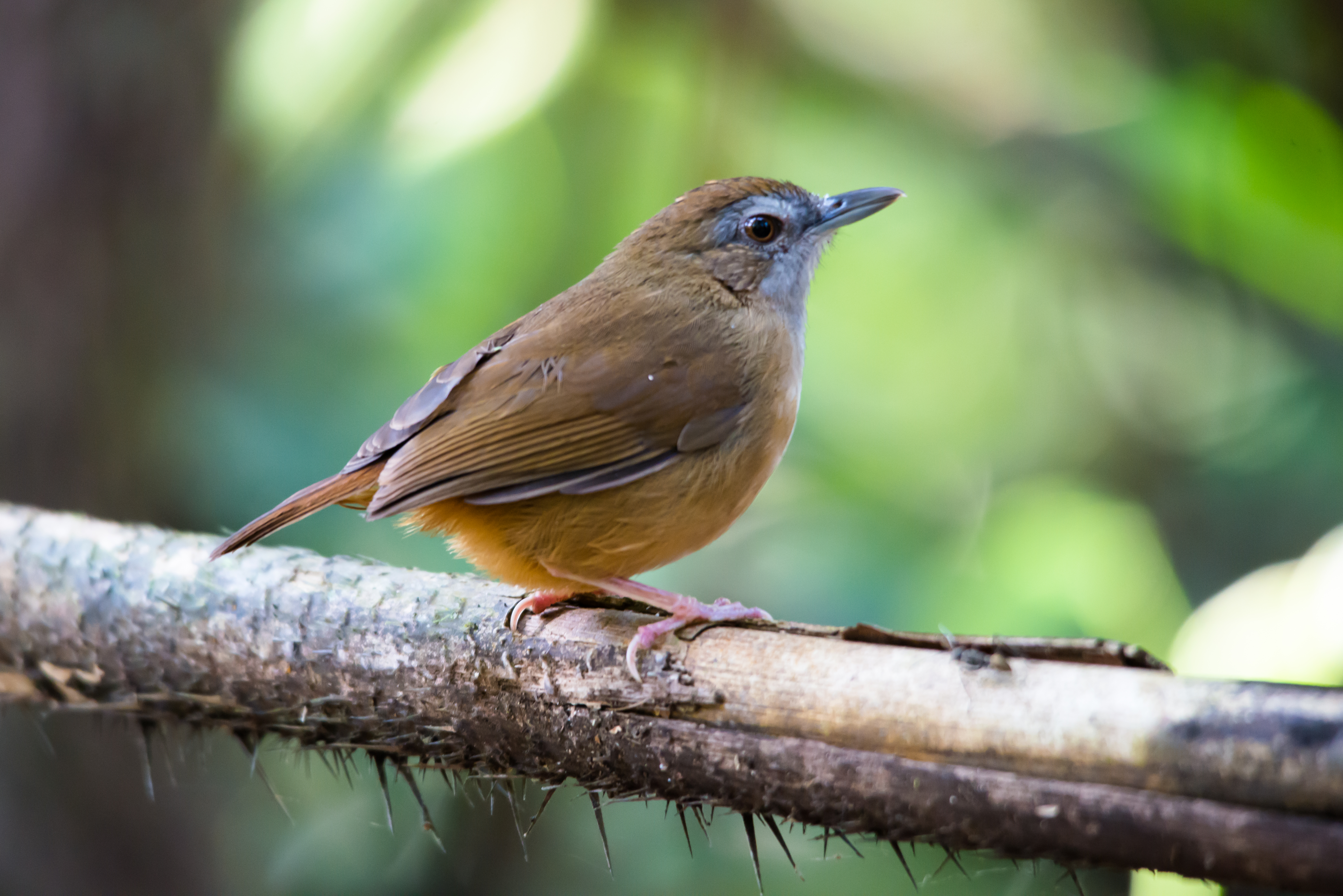 Malacocincla abbotti, Abbott's babbler. Photo by Thai National Parks.